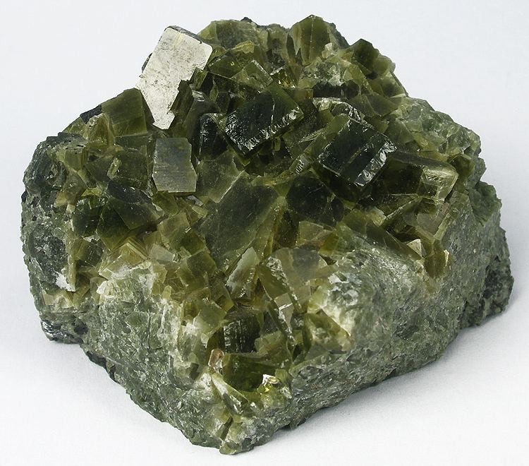 Johannsenite Locality: North Mine (North Broken Hill Mine; NBH Mine), Broken Hill, Yancowinna County, New South Wales, Australia (Locality at ) Size: 5.5 x 4.5 x 3.3 cm. Johannsenite is a rare pyroxene group silicate and this fine, very rich specimen features huge, blocky, highly lustrous, olive-green crystals to 1.2 cm on matrix. This is also a rare and exceptional locality piece from the North Mine at Broken Hill, Australia. Ex. T.M. Phetteplace and Jaime Bird Collections.